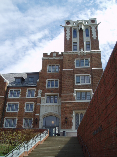 I took this picture in April 2004 of Memorial Hall at the University of Cincinnati's College-Conservatory of Music.